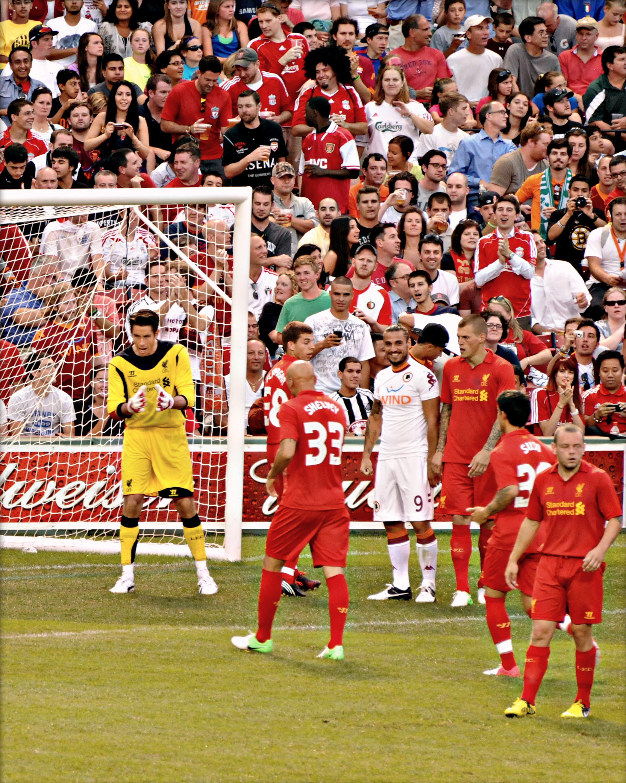 Brad Jones telling his defense to wake up after an instinctive save.